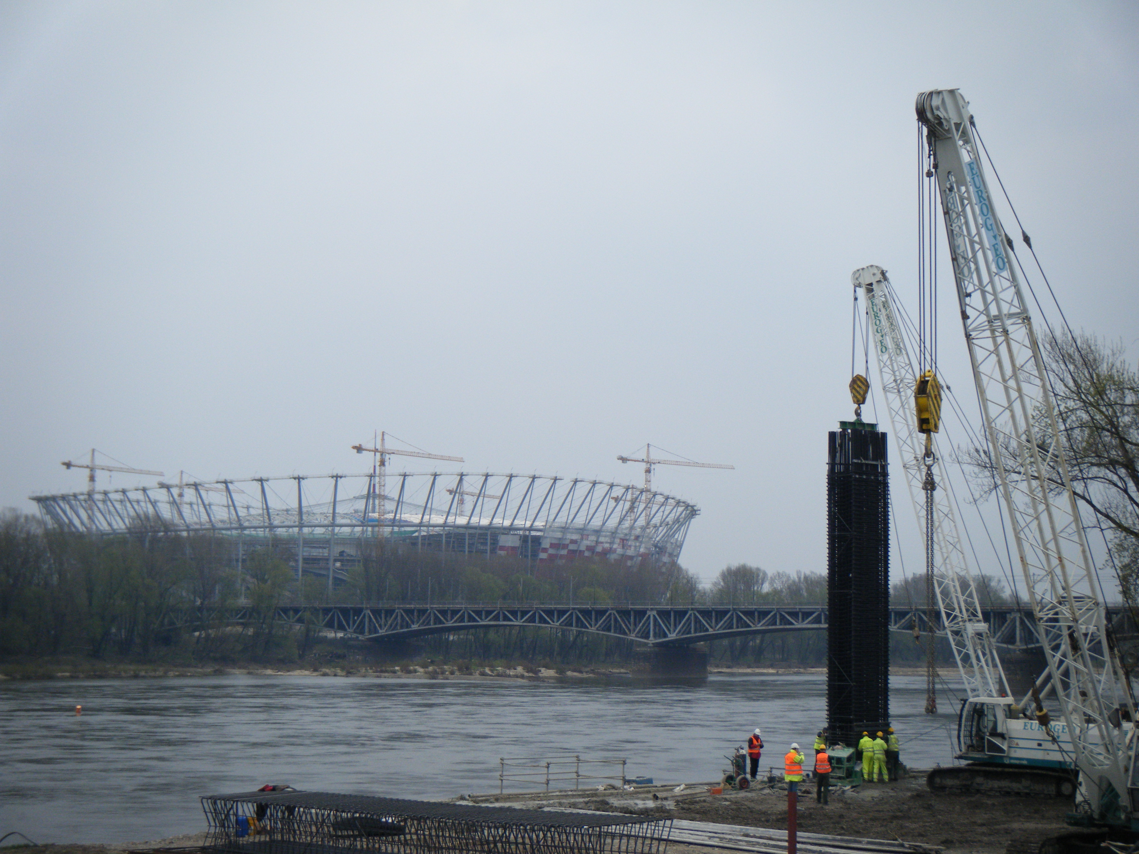 Powiśle metro station (under construction) in Warsaw